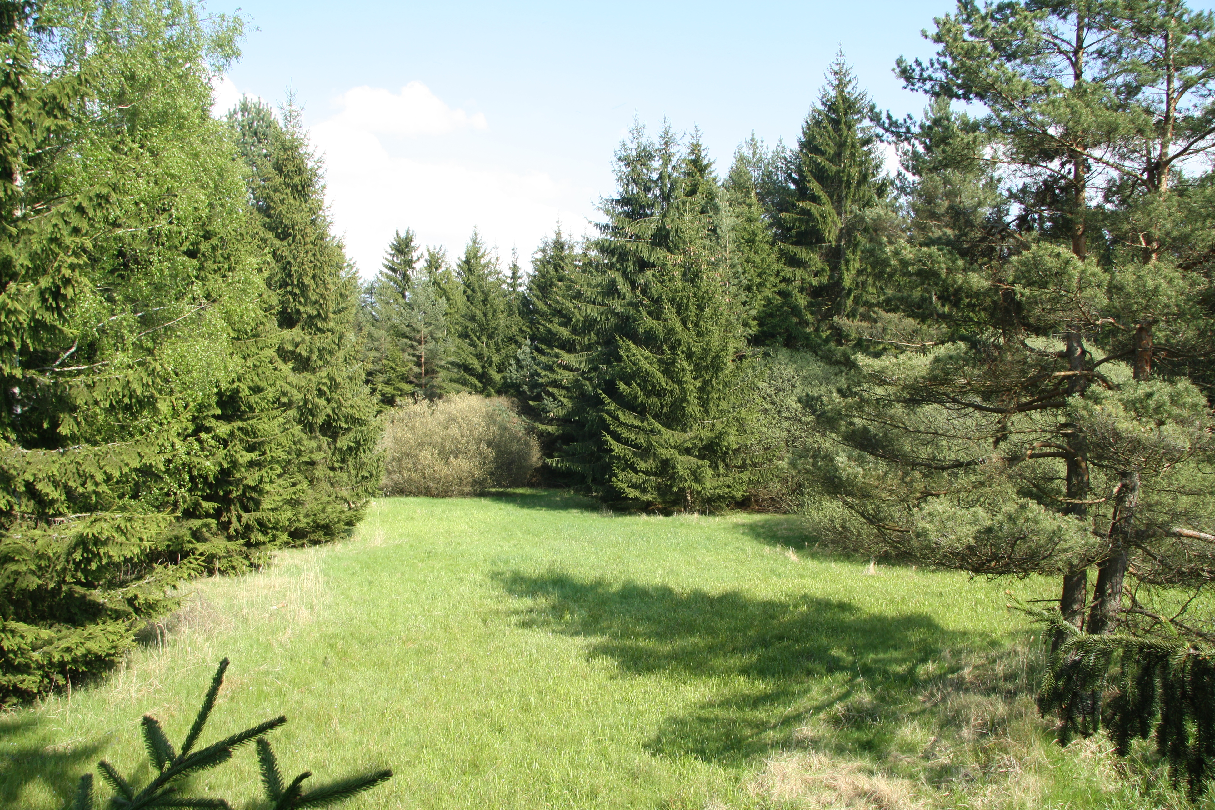 Overview of natural reserve Opatovské zákopy near Opatov, Třebíč District.